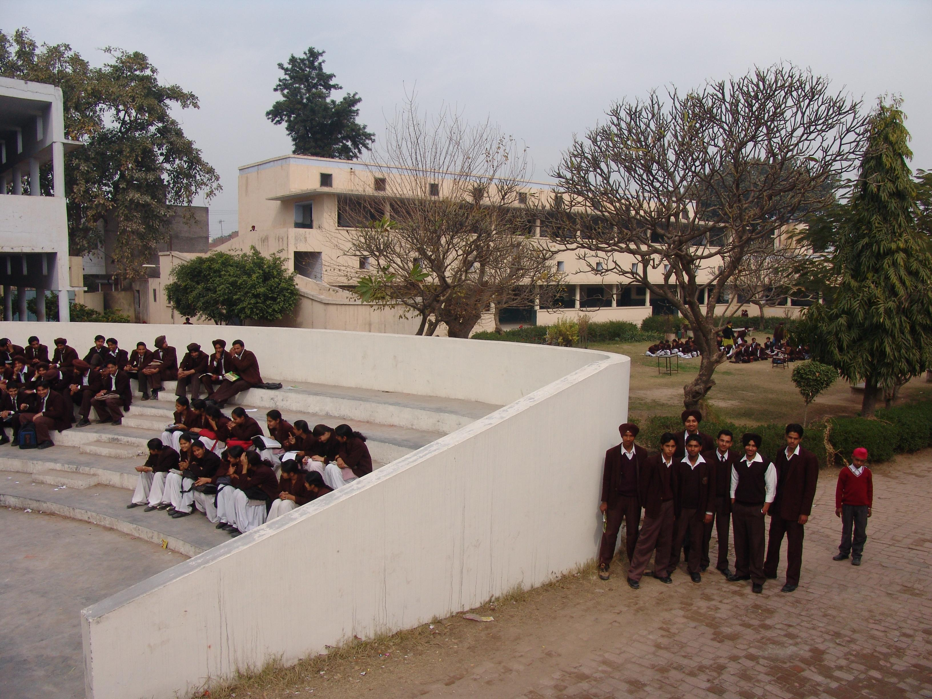 Government Model Pheel Khana School, Patiala. Established 1955. Photo taken by User:IP Singh in 2008. Source: Taken by User:Ipsingh